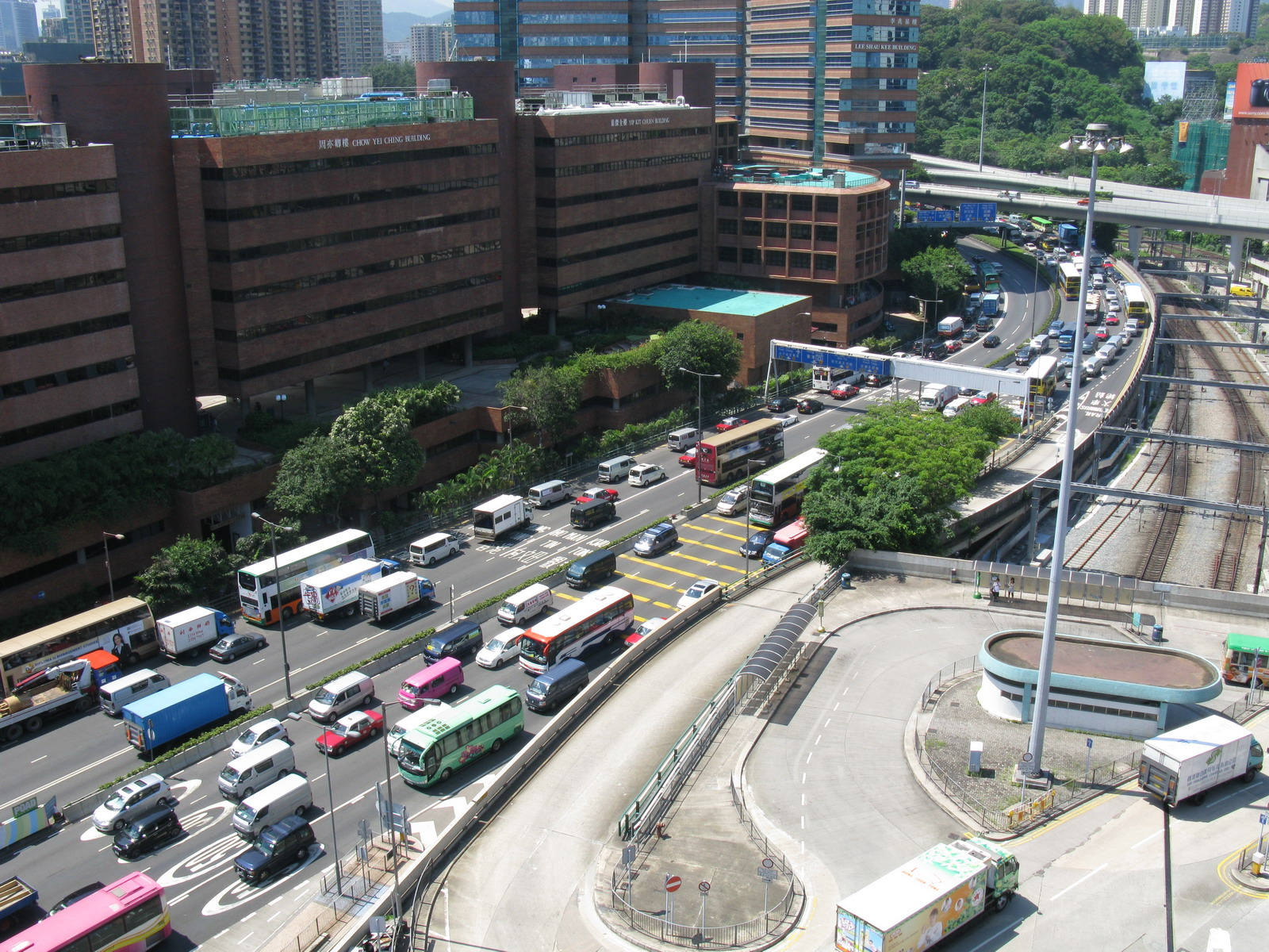 Hong Chong Road